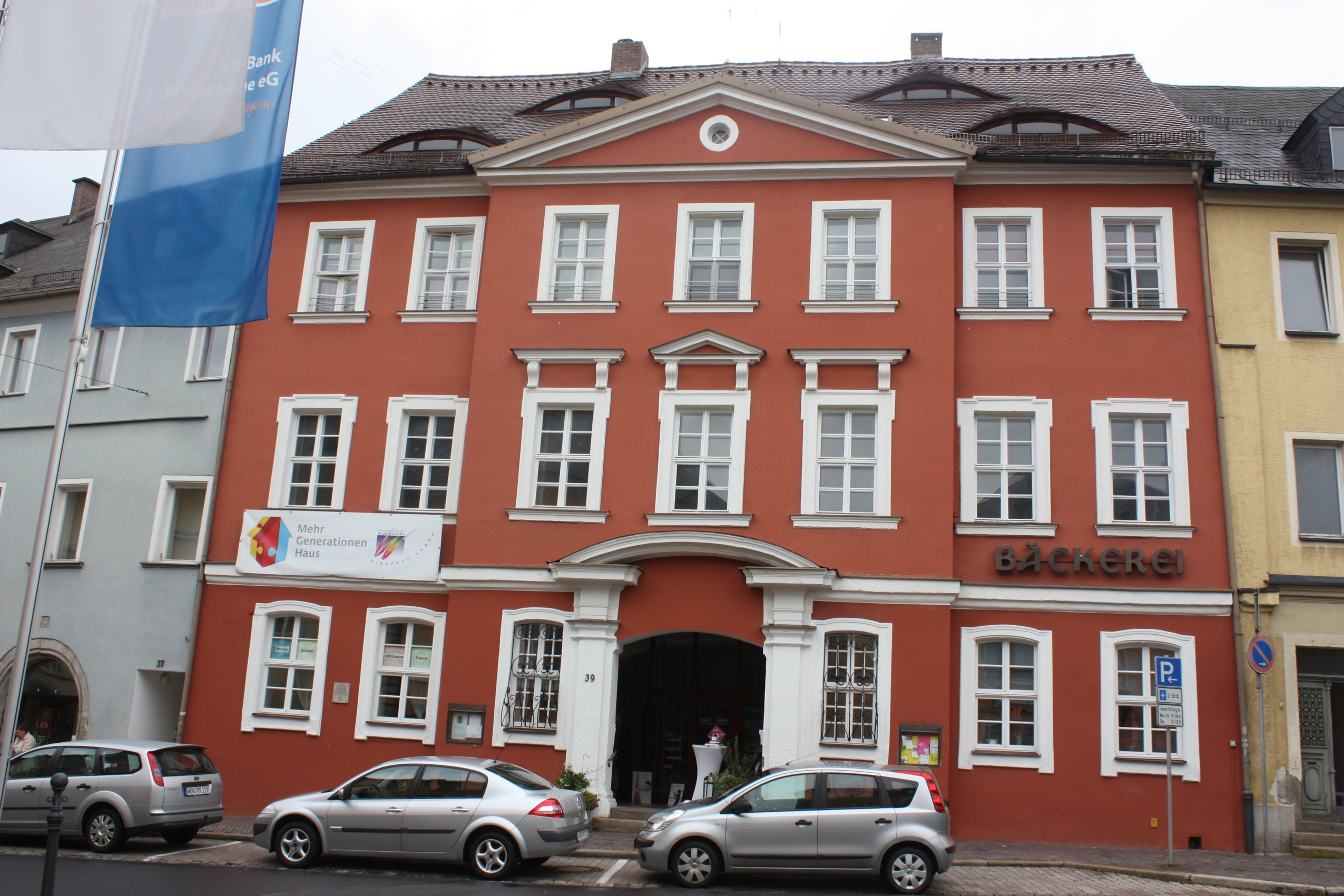 Wunsiedel, the former palace Lindenfels